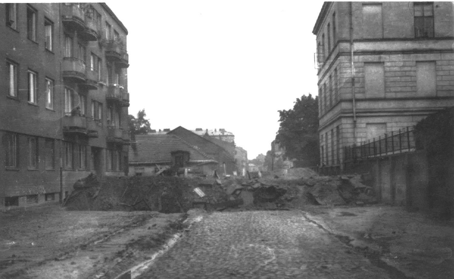 Warsaw Uprising: Barricade on the corner of Karolkowa and Żytnia Streets, in Wola district.